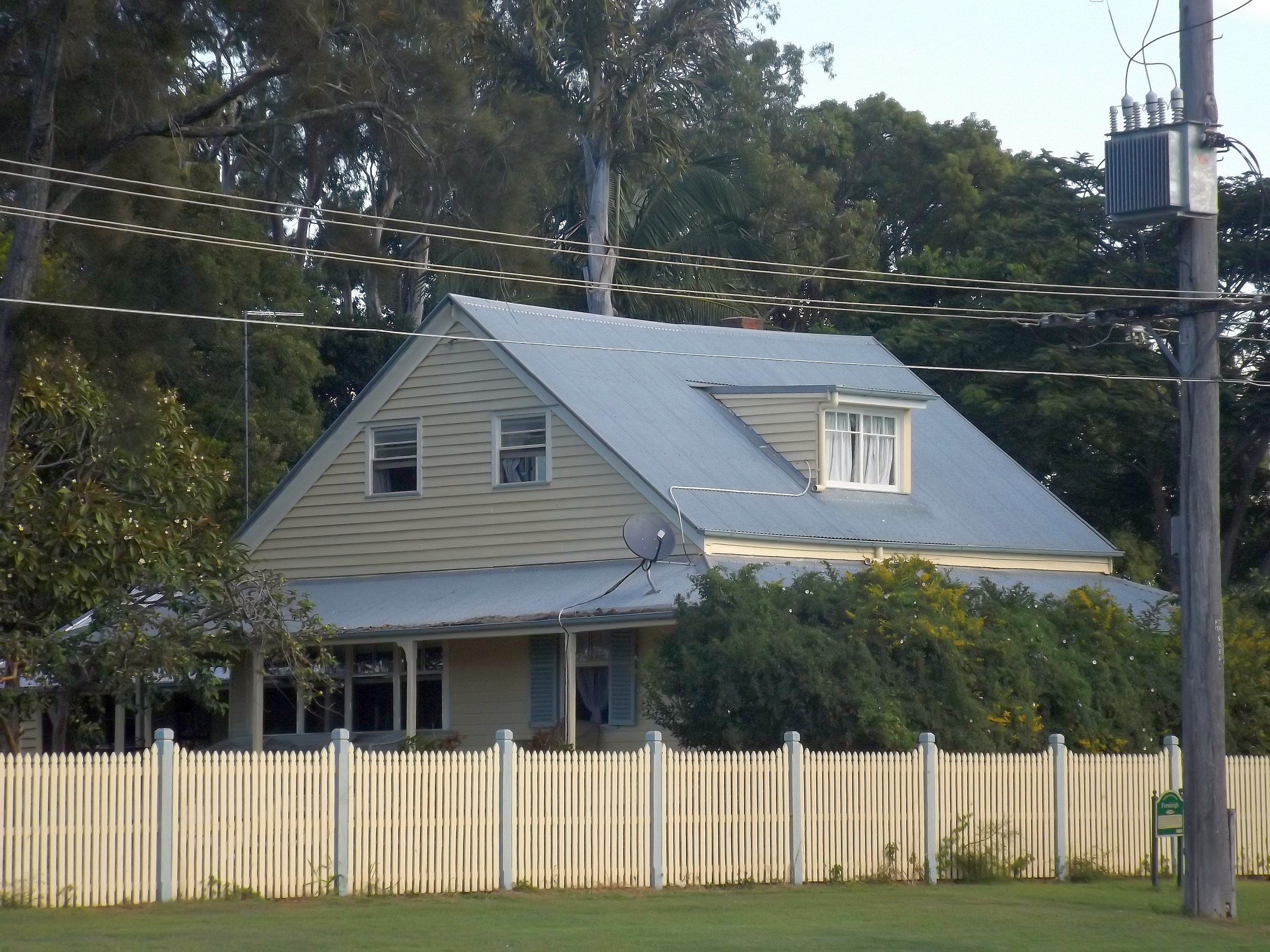 Photo of Fernleigh at Cleveland, City of Redland, Queensland, Australia.